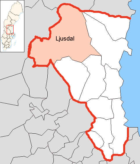 Ljusdal Municipality in Gävleborg County Designd by me, based on Image:Gävleborg County.png